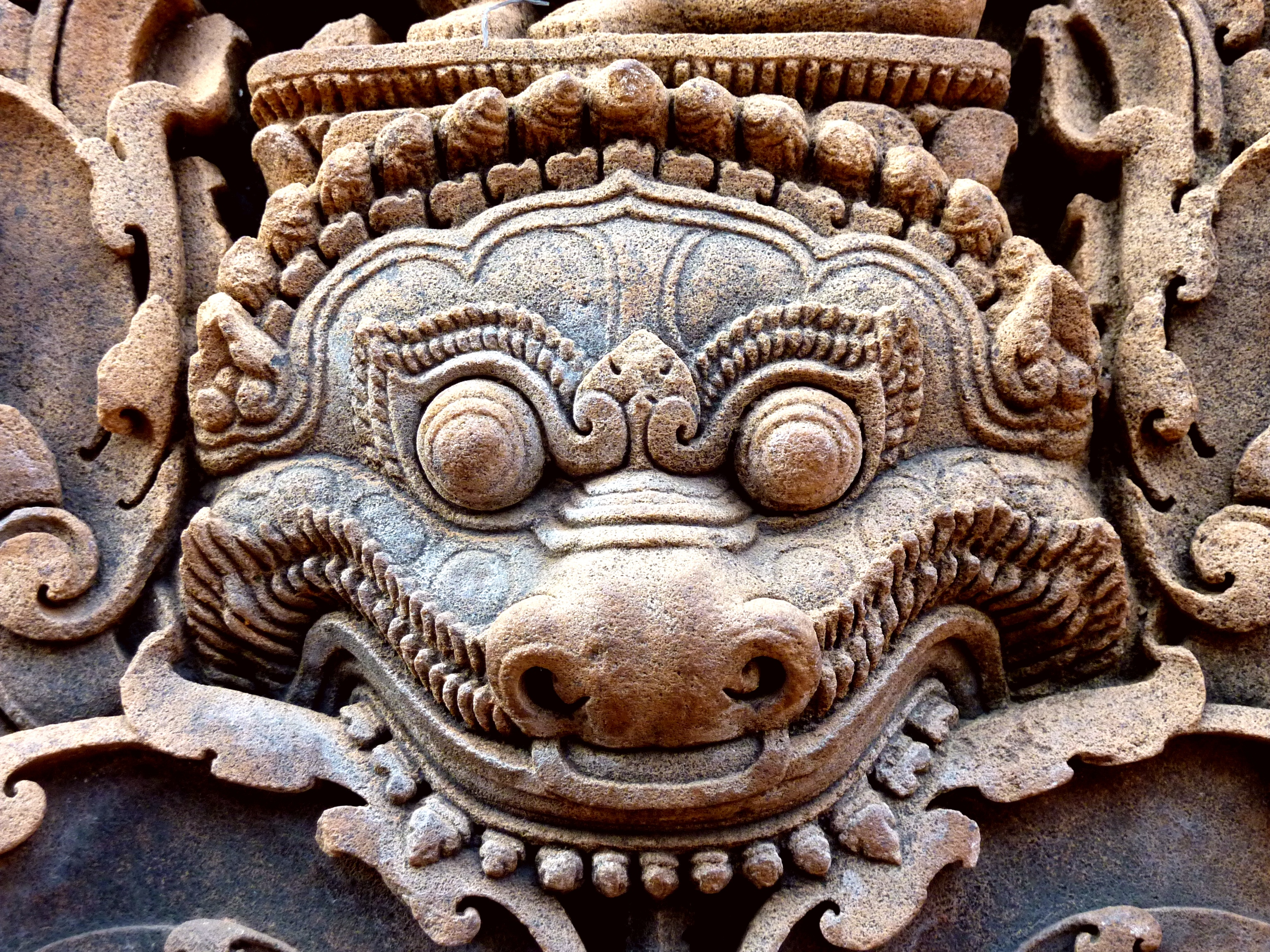 024 Naga at Banteay Srei Photograph from Banteay Srei, Angkor in Cambodia taken by Anandajoti.